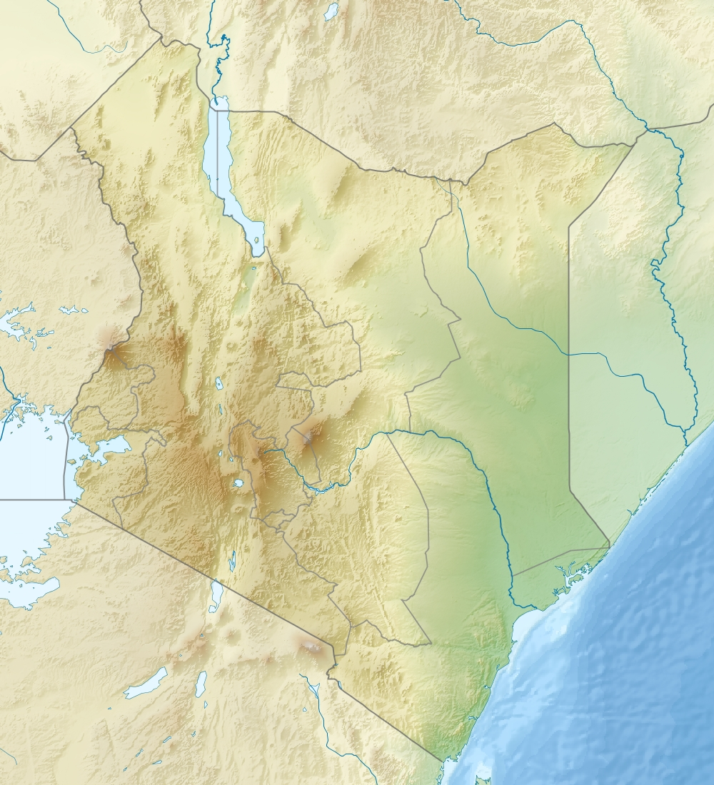 Location map of Kenya Equirectangular projection. Strechted by 100.0%. Geographic limits of the map: N: 6.0° N S: -5.0° N W: 33.0° E E: 43.0° E Made with Natural Earth. Free vector and raster map data @ .